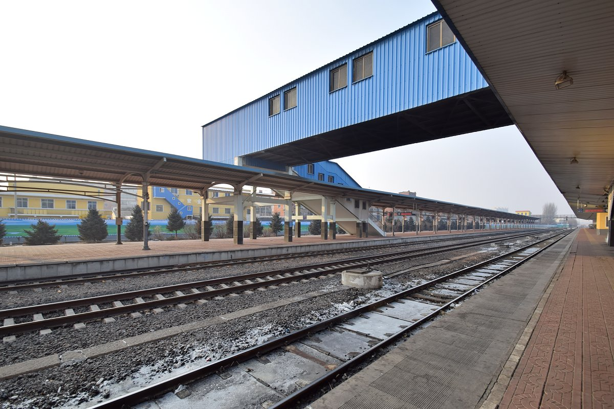 Platforms of Tongliao Railway Station (demolished)